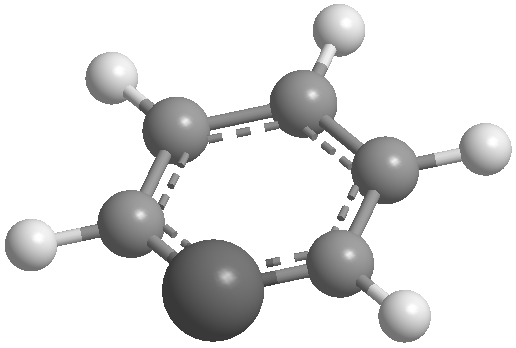 Stibinin Molecule, with the white balls as hydrogen, the light gray balls as carbon, and the dark gray ball as Antimony